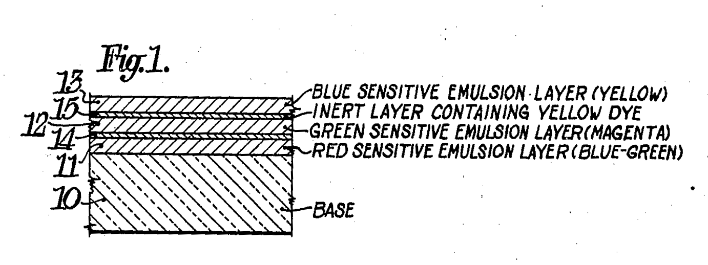 Figure from patent US2113329A issued by Kodak, describing the structure of a chromogenic print.